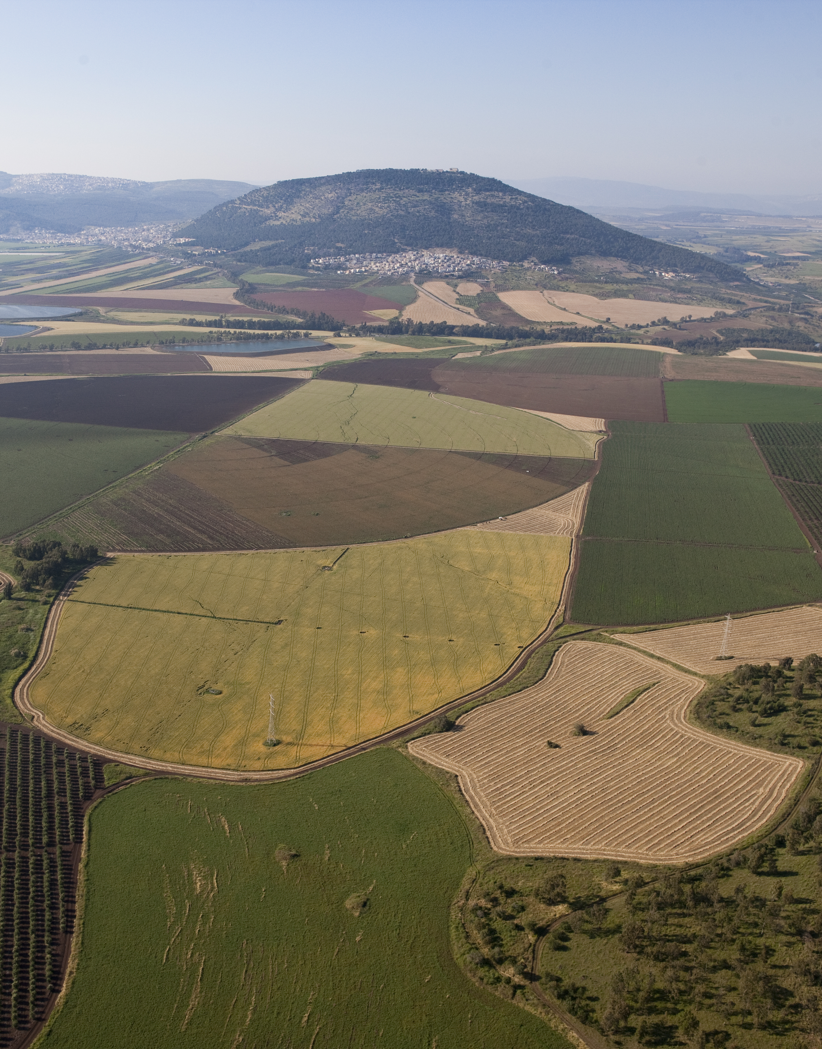 Galilee is a large region in northern Israel which is traditionally divided into Upper Galilee, Lower Galilee and Western Galilee . The picture shows an aerial view of the Galilee with Mount Tabor. Photo taken by Itamar Grinberg for the Israeli Ministry of Tourism. Credit attribution requested Galilee